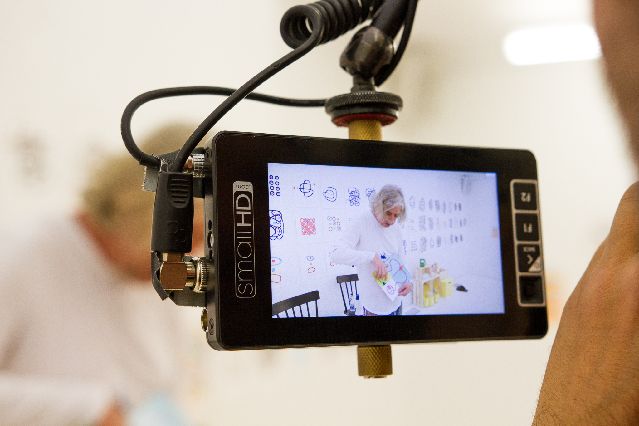 Vidéo L'expo idéale abvec Hervé Tullet